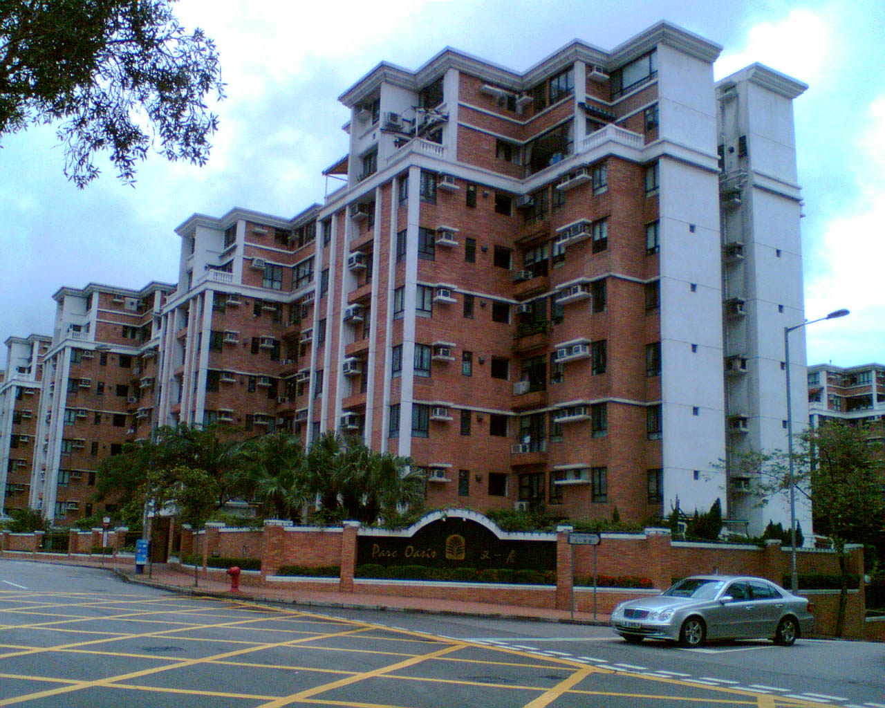 Parc Oasis, Yat Yat Tsuen, Kowloon, Hong Kong